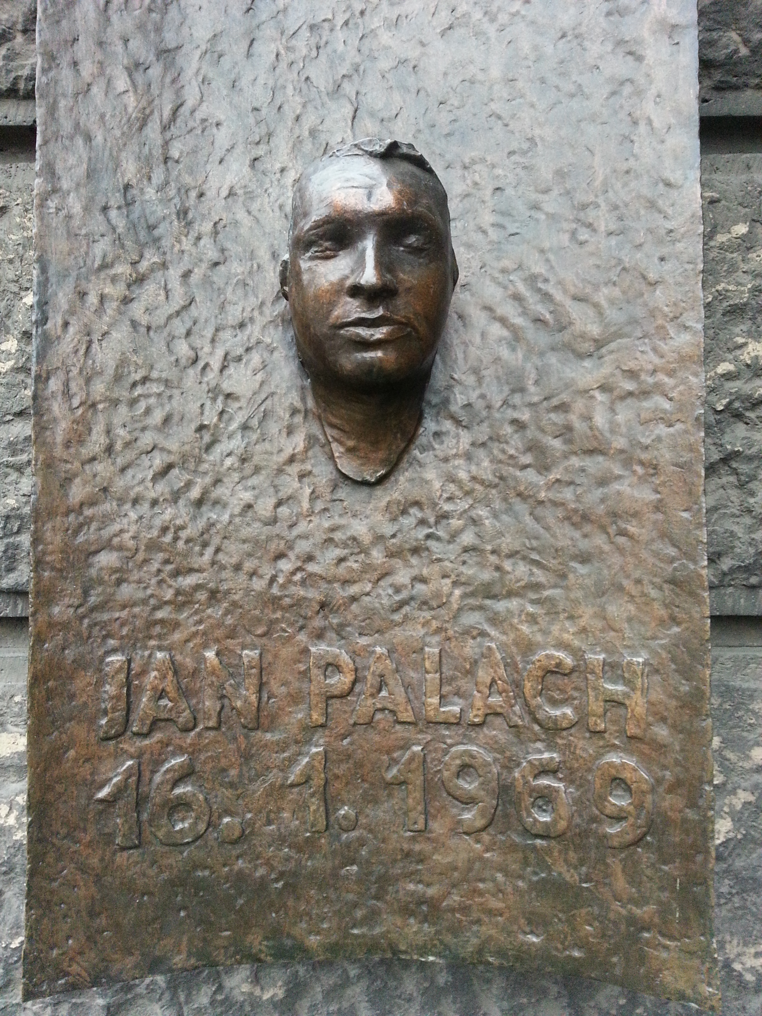 Jan Palach memorial in Faculty of Arts, Prague, Czech Republic